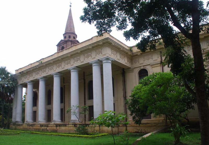 St. John's Church, Kolkata